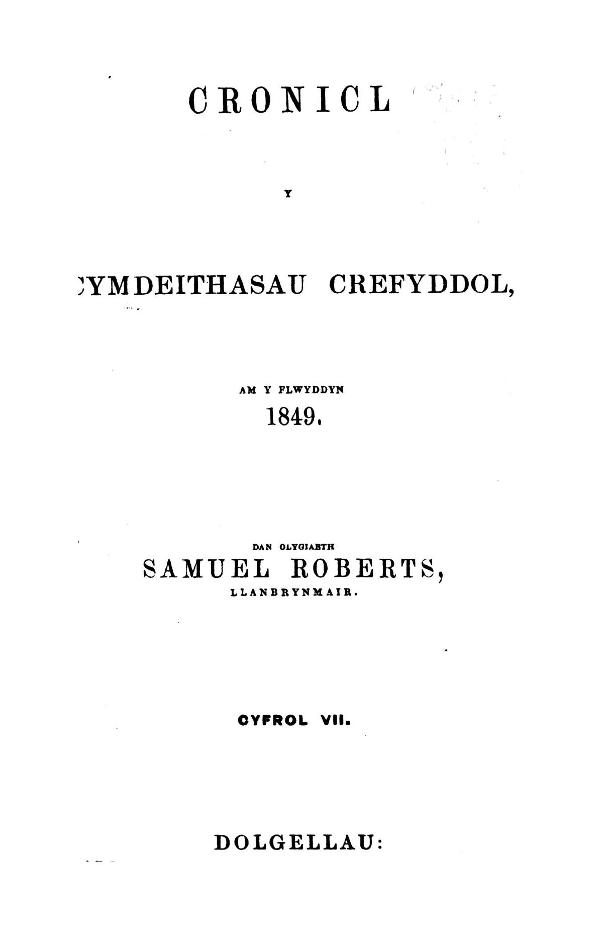 A monthly Welsh language periodical that circulated mainly among the Congregationalists. The periodical's main content were articles on religion, literature and radicalism, with the periodical reflecting the opinions of its founder and first editor the minister and Radical reformer, Samuel Roberts (S. R., 1800-1885). Samuel Roberts was followed as editor by his brother John Roberts (J. R., 1804-1884). Associated titles: Cronicl Canol y Mis (1871); Y Cronicl (1876).